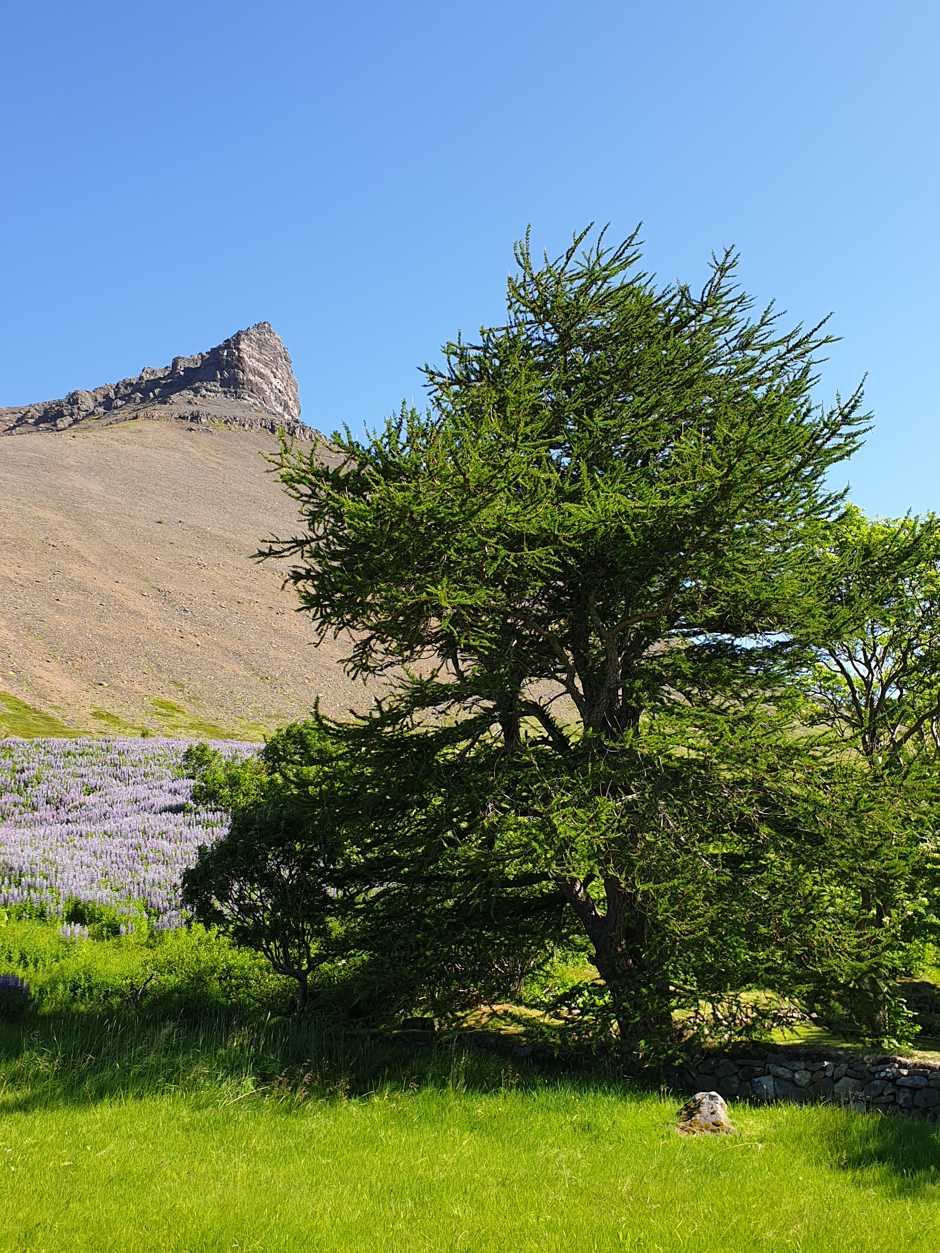 Larix Decidua in Skrúður